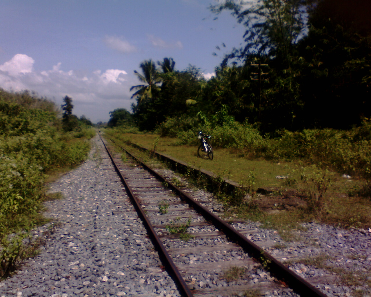 Na Po train stop